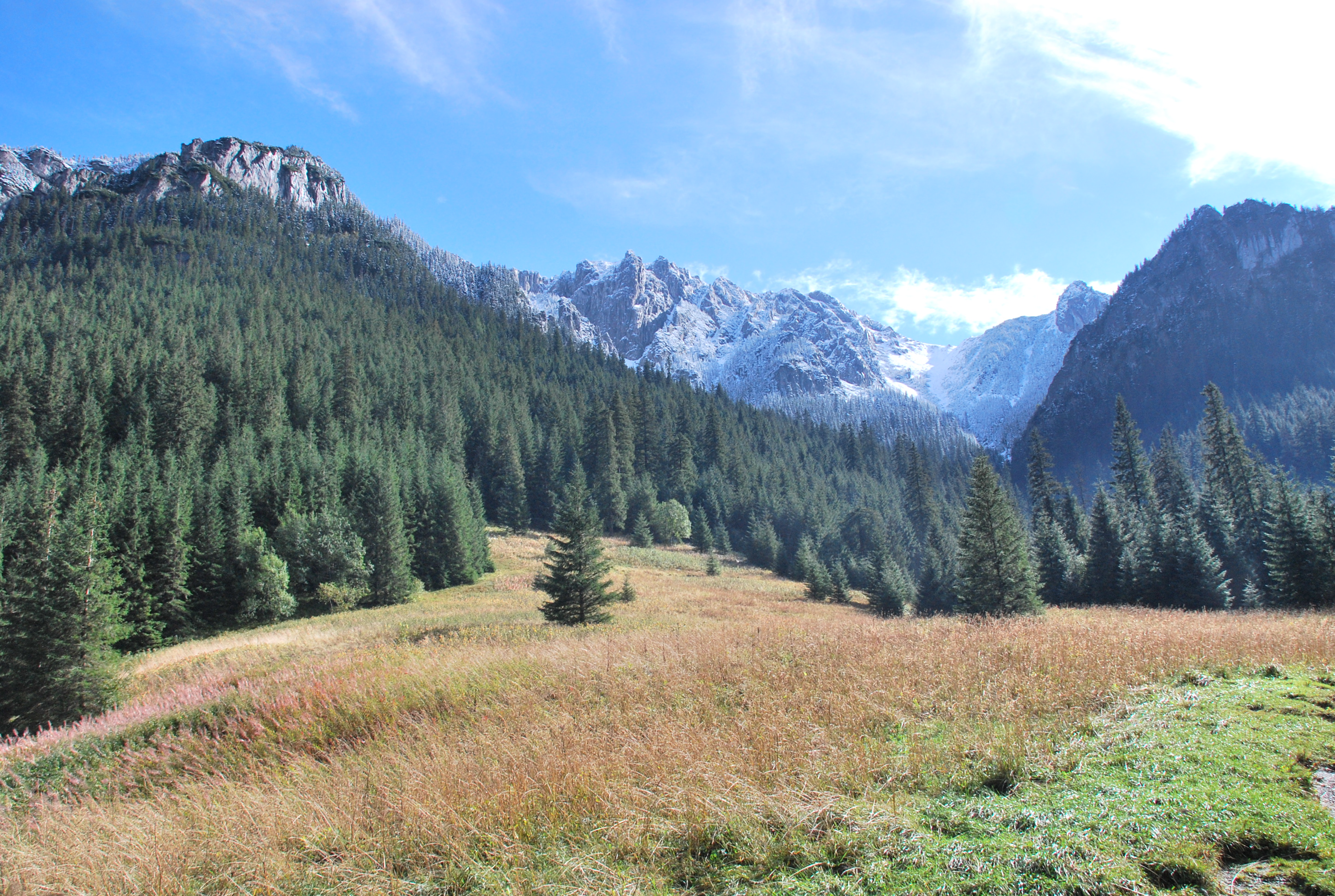 Polana Pisana - widok na Organy i Zdziary